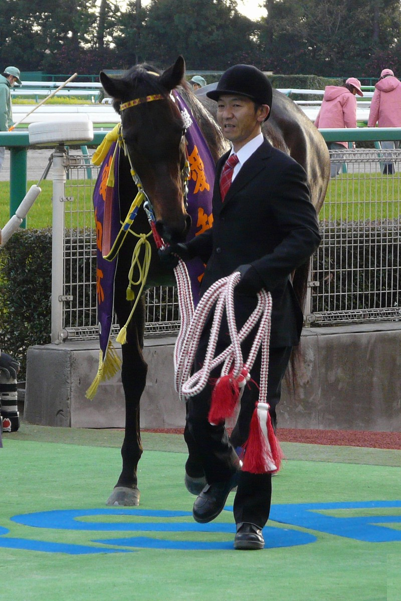 Little-Amapola20091219